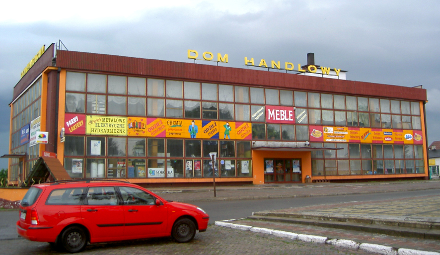 Łaszczów, Poland, shopping mall.